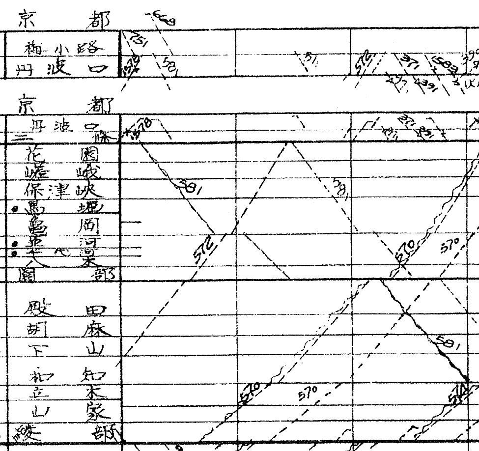 Train schedule of Sanin Line, Japan, part